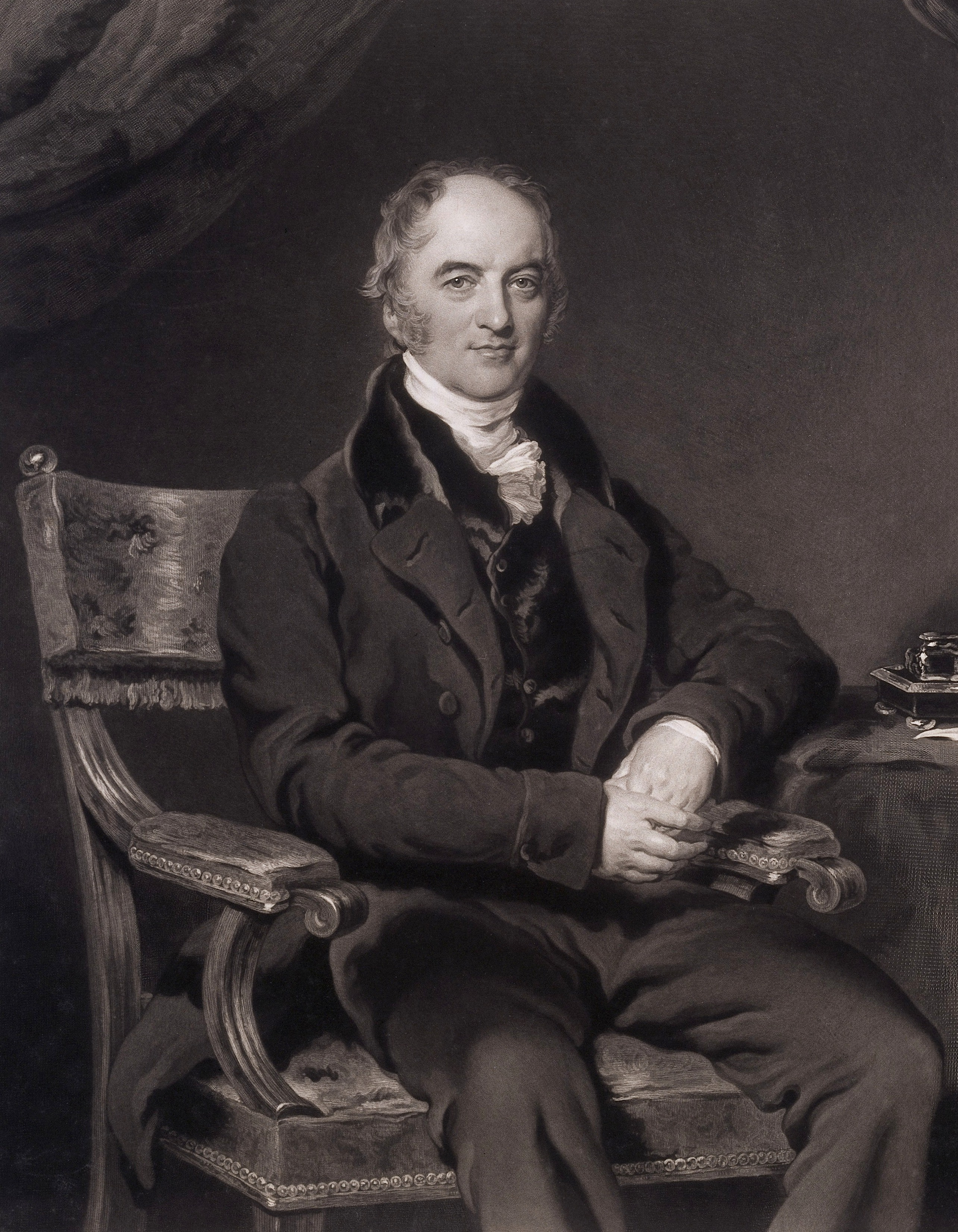 John Taylor. Founder of John Taylor and Sons and other metal mining companies active in Great Britain, the Americas, Europe and Australia. Fellow of the Royal Society, 1825; member of the Geological Society and its treasurer 1816 to 1847.